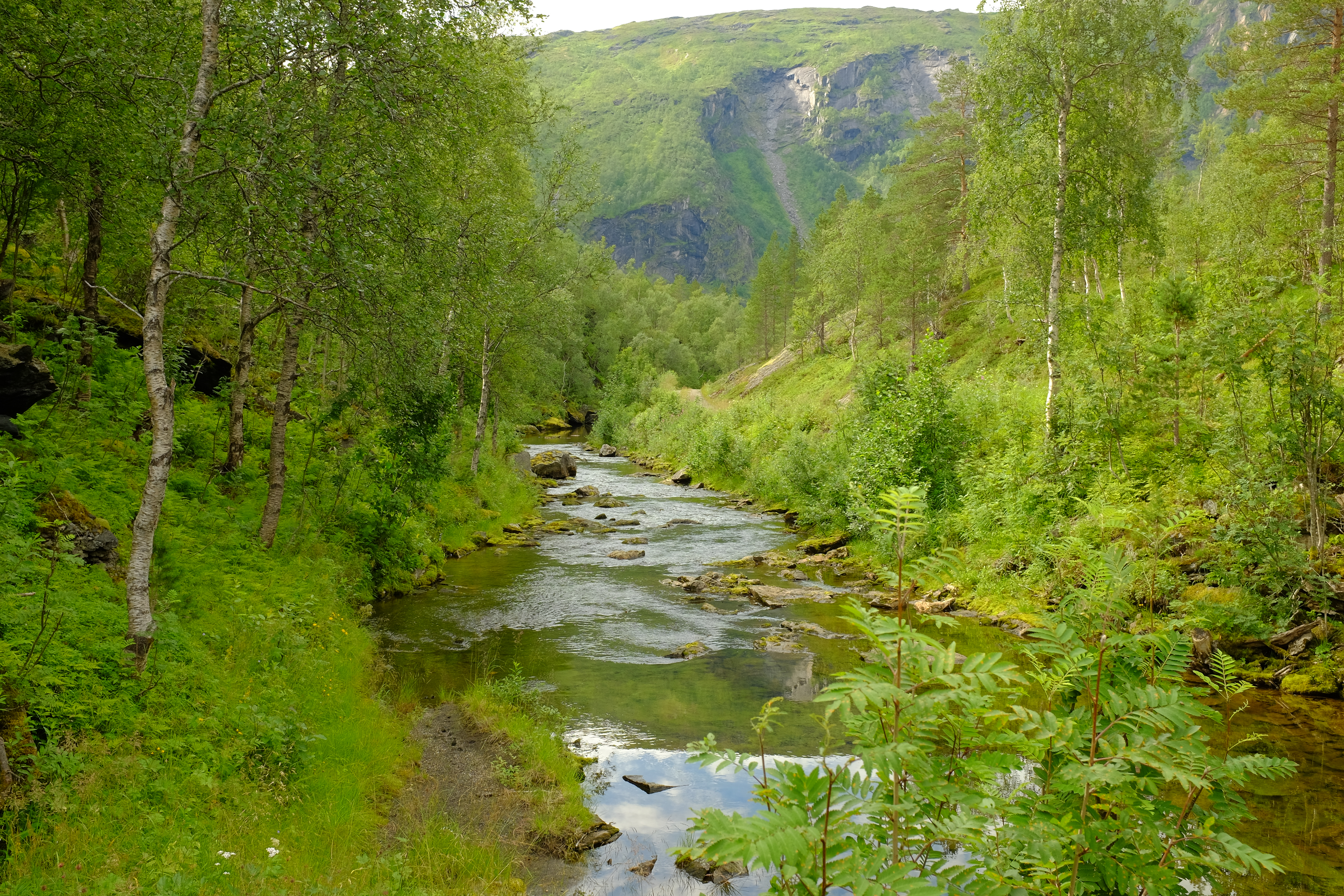 Tverrelva is a tributary of Sjønståelva in Fauske Municipality, Nordland, and is part of Sulitjelma watercourse.